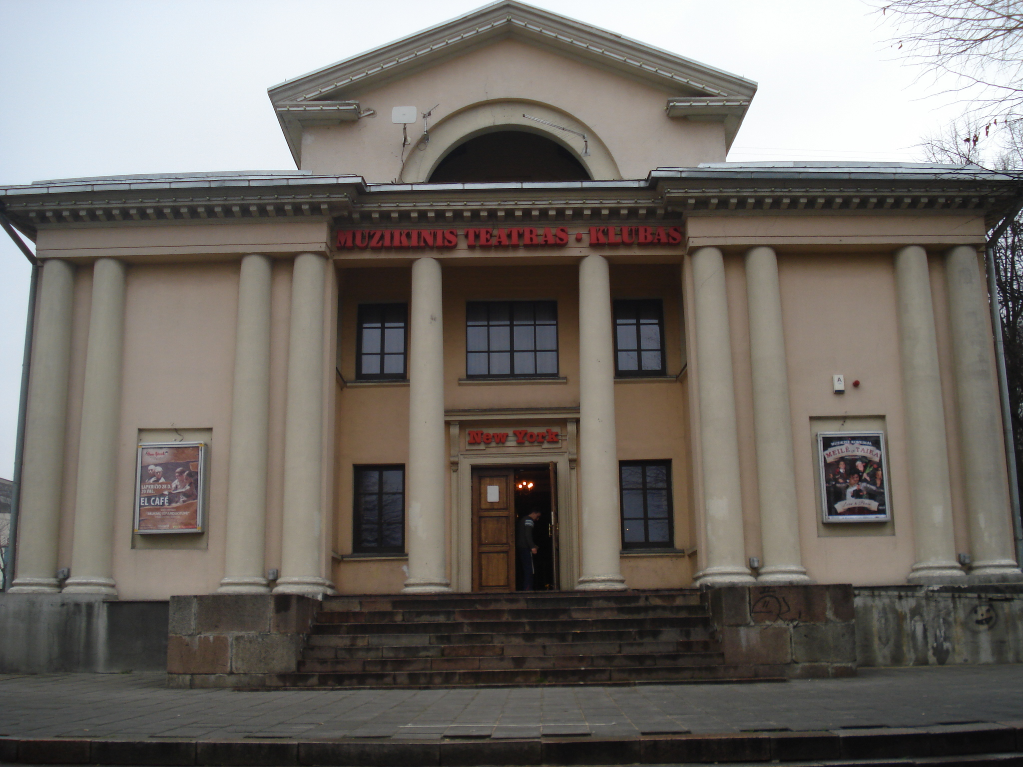 Former cinema Tevynė in Vilnius. Novadays music club New York. Kalvarijų g. 85Lietuvių: Kino teatras Tevynė Vilniuje. Dabar muzikinis teatras klubas New York. Kalvarijų g. 85